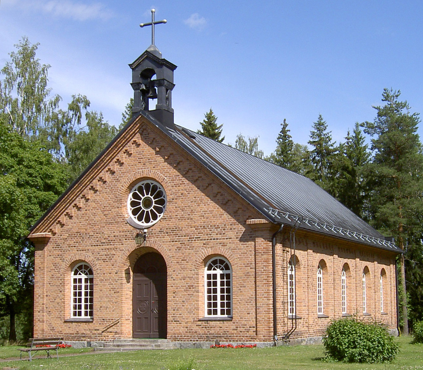 Väster Tuna chapel in Spraxkya, Borlänge municipality, Sweden